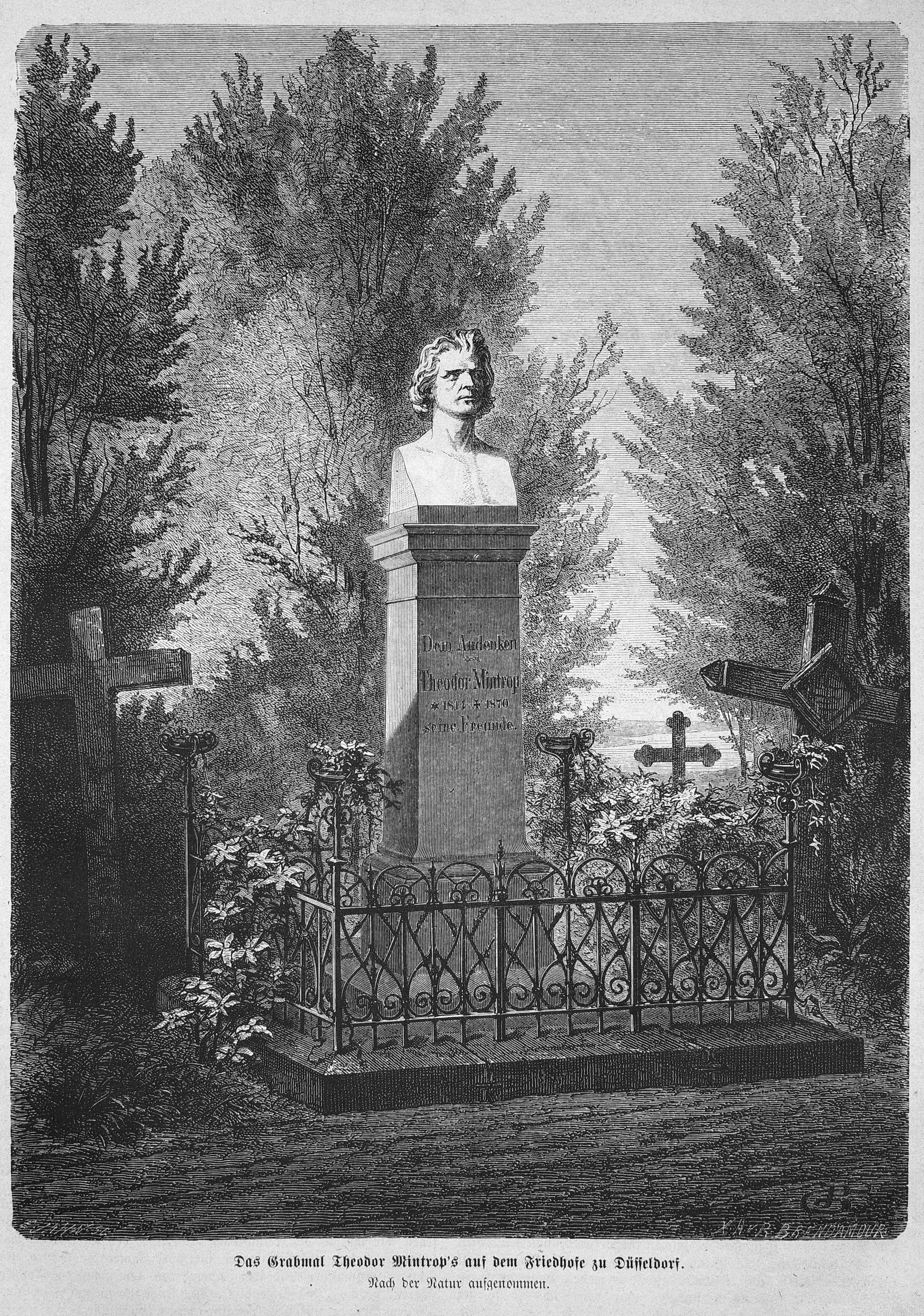 caption: "Das Grabmal Theodor Mintrop’s auf dem Friedhofe zu Düsseldorf. Nach der Natur aufgenommen."